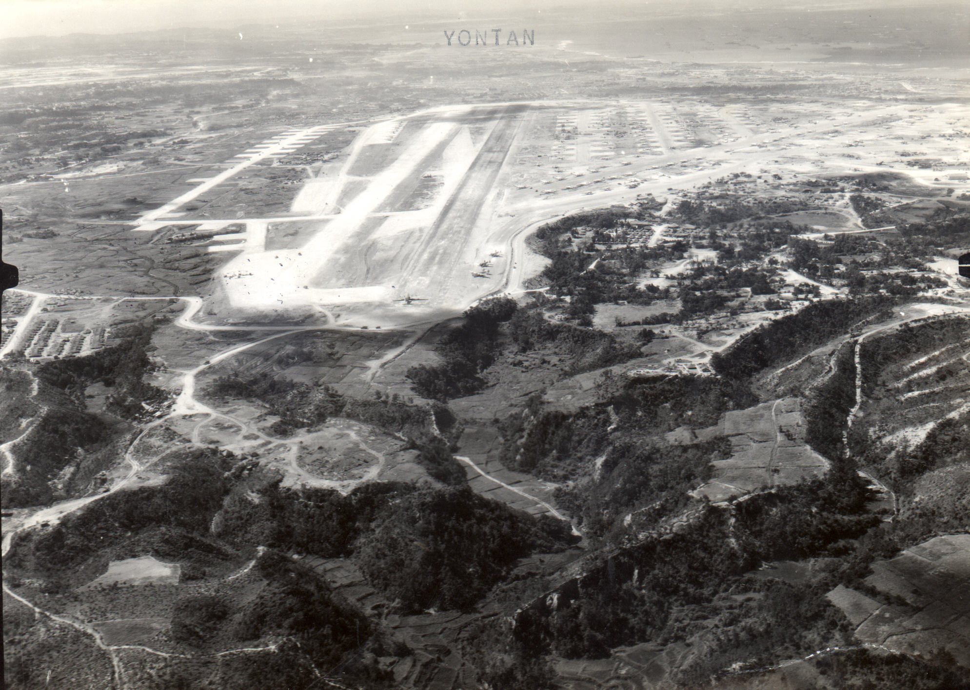 Aerial view of the Yontan Airfield, Okinawa